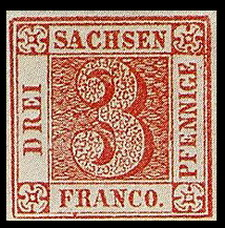 Foto Sachsen-Dreier, selbst fotografiert. Sachsen-Dreier, one the first German stamps, issued by Saxony in 1850